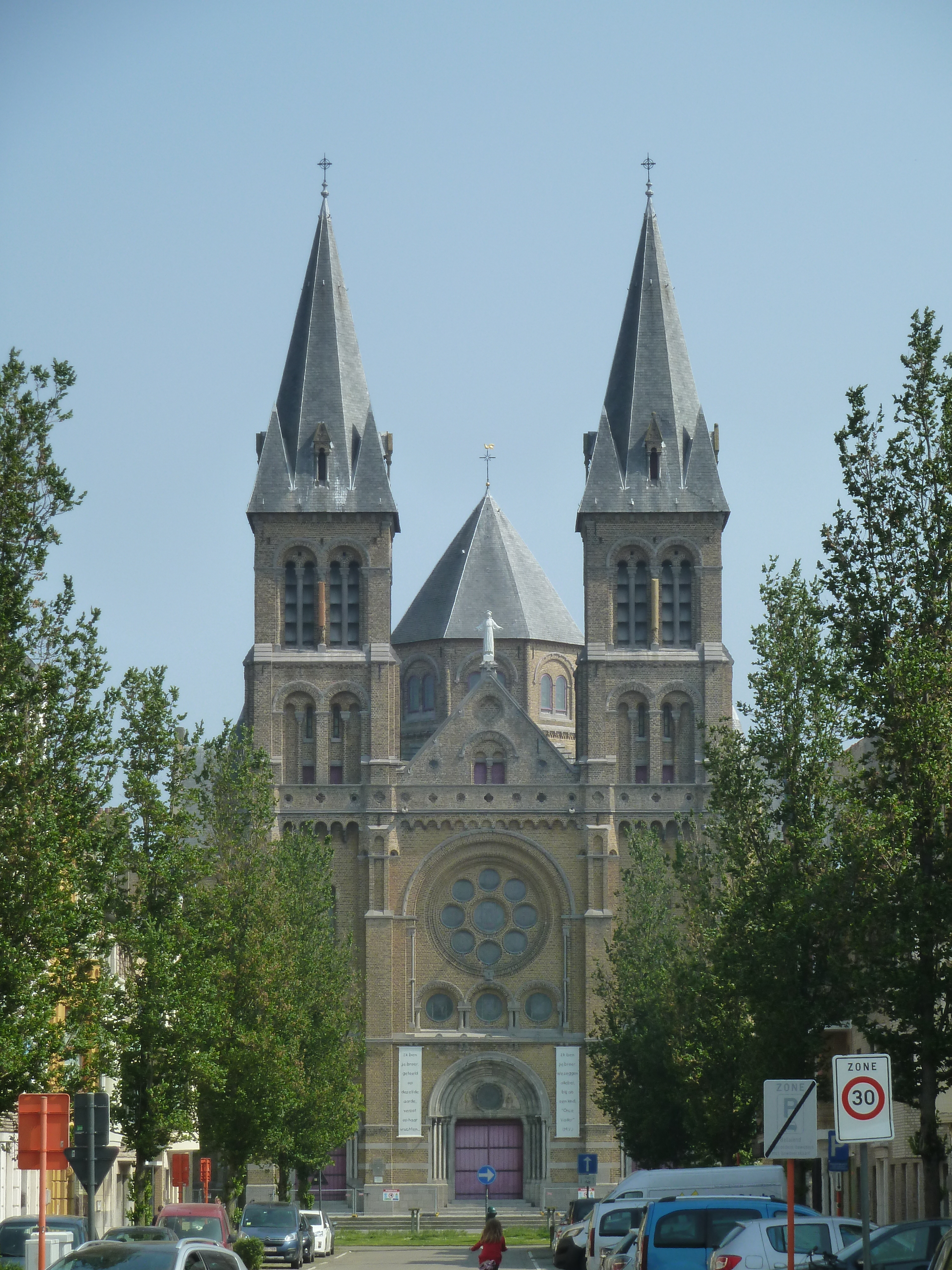 Heilig Hartkerk (Oostende)